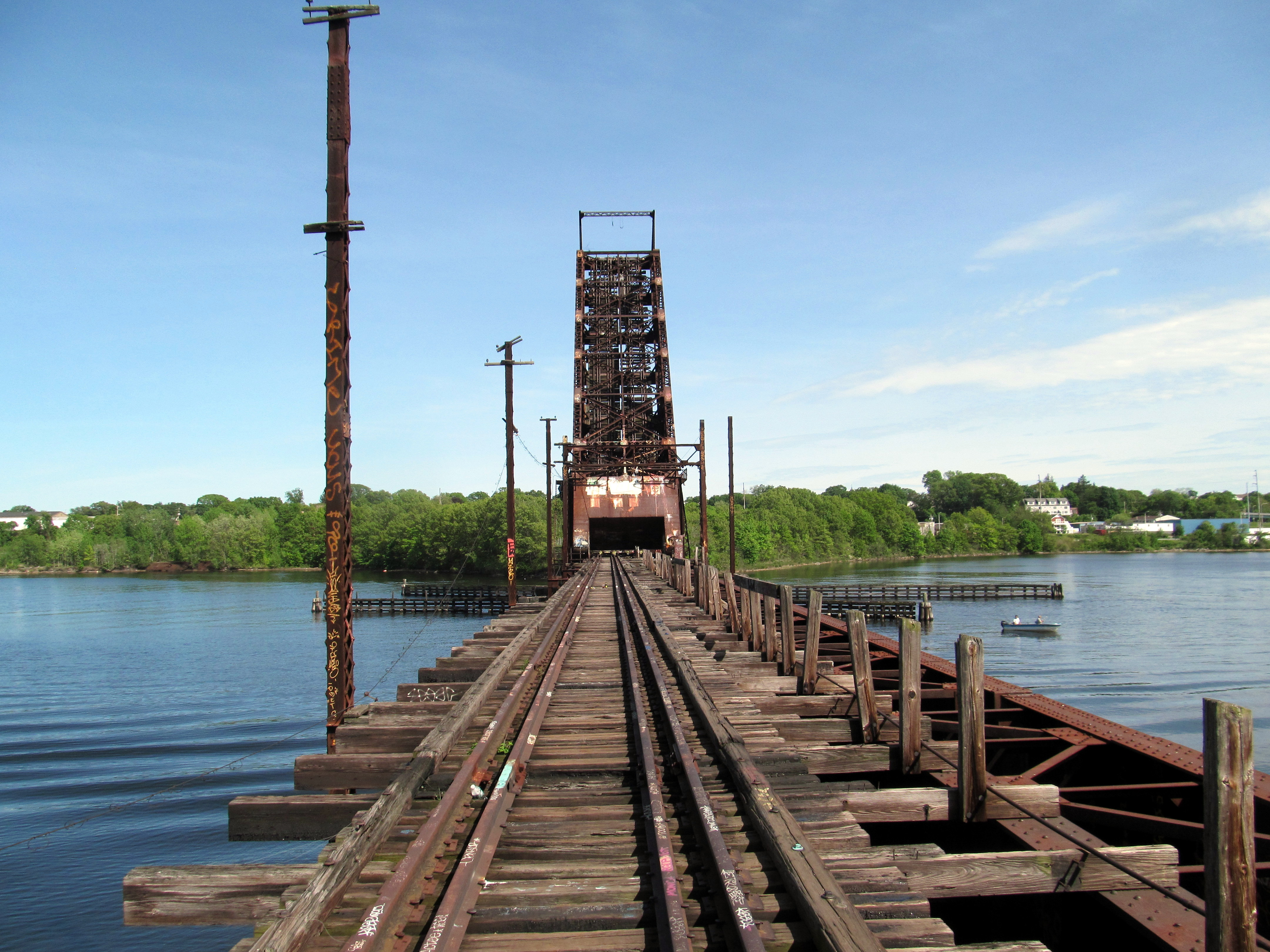 Crook Point Bascule Bridge in May 2017